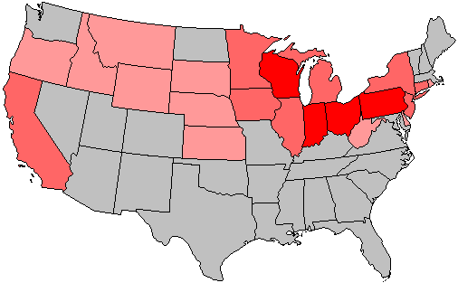 Summary of party change of U.S. house seats in the 1938 House election. Stripes indicate a tie between the gains of two or more parties. Legend: 6+ Democratic seat pickup 3-5 Democratic seat pickup 1-2 Democratic seat pickup 1-2 Republican seat pickup 3-5 Republican seat pickup 6+ Republican seat pickup 1-2 Progressive seat pickup 3-5 Progressive seat pickup 1-2 Farmer-Labor seat pickup 3-5 Farmer-Labor seat pickup Note: years ending in 2 may have inconsistent results due to redistricting.